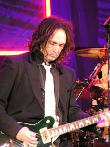 This photo was taken by a friend at a Tom Petty concert, and releases all rights.